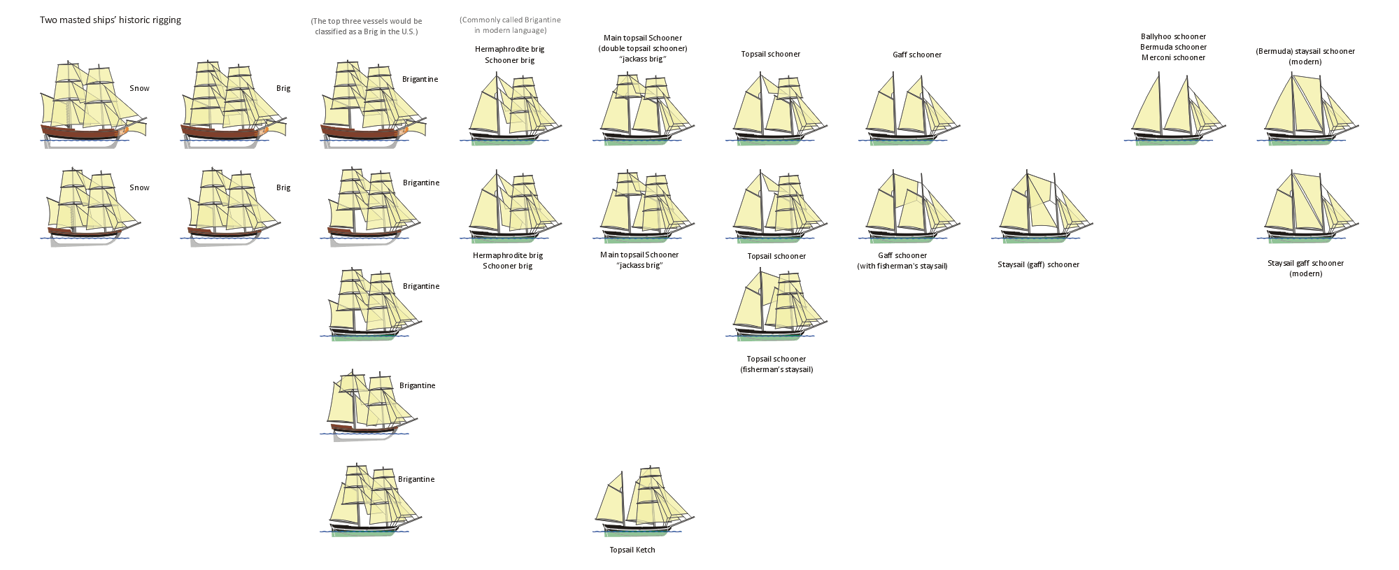 Different rigging/sailplans for two masted vessels, including snow, brig, brigantine, jackass-brig, hermaphrodite-brig, and various schooners